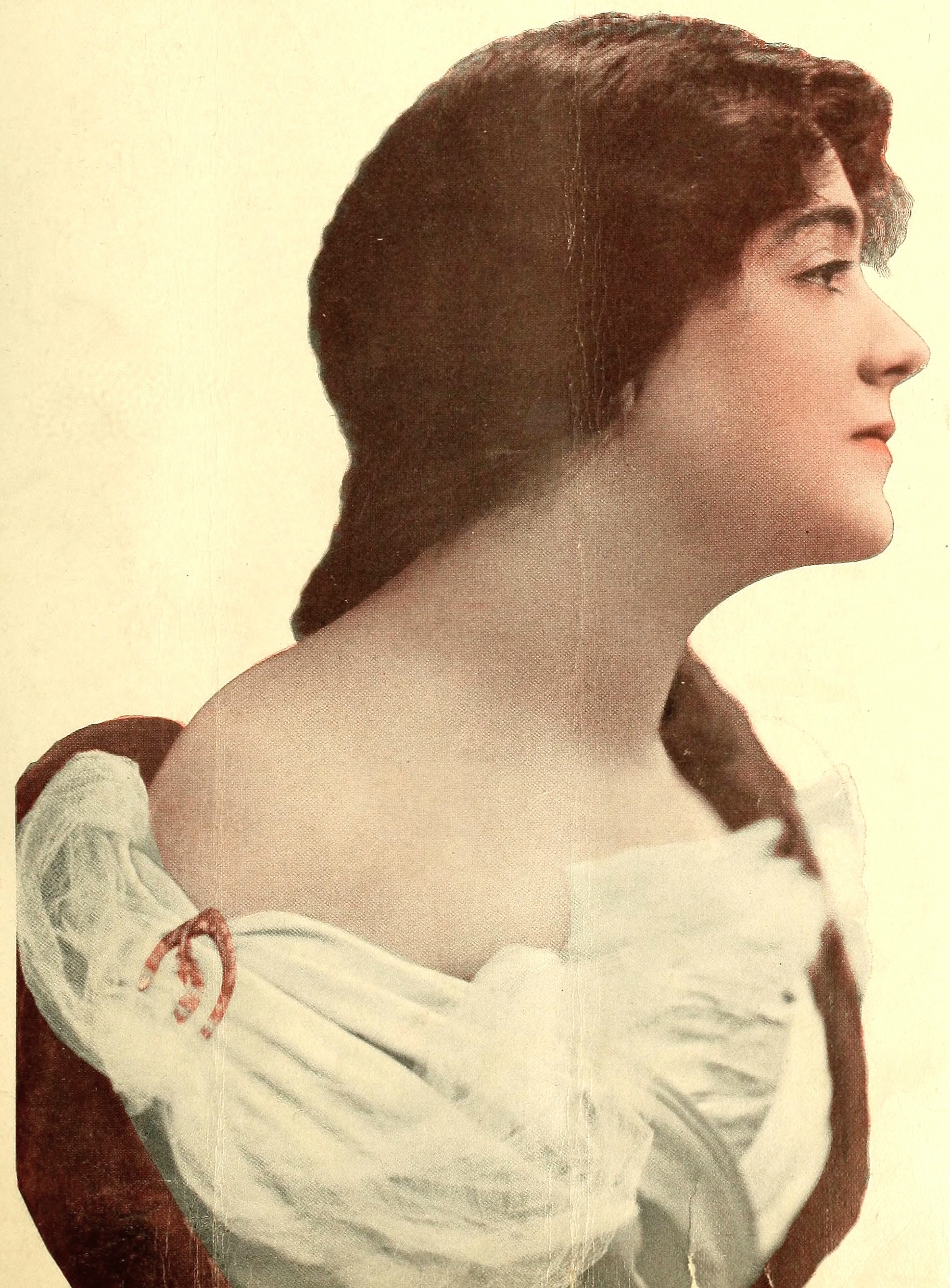 Adrienne Kroell as she looked on the 1913 cover of Motography magazine (caption digitally muted)